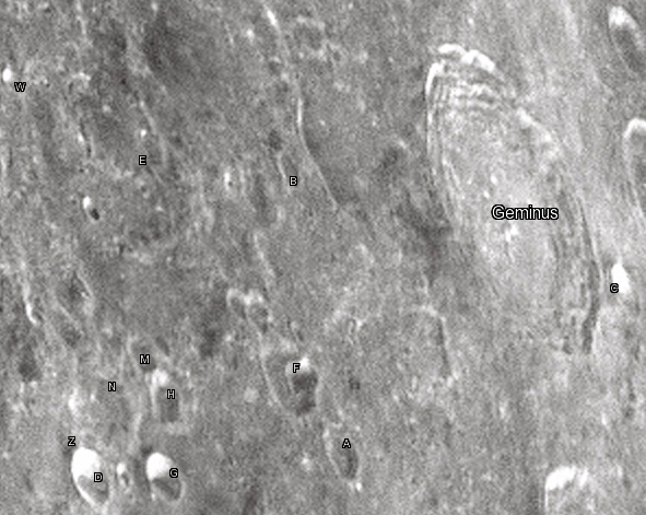 Geminus lunar crater as seen from Earth with satellite craters labeled